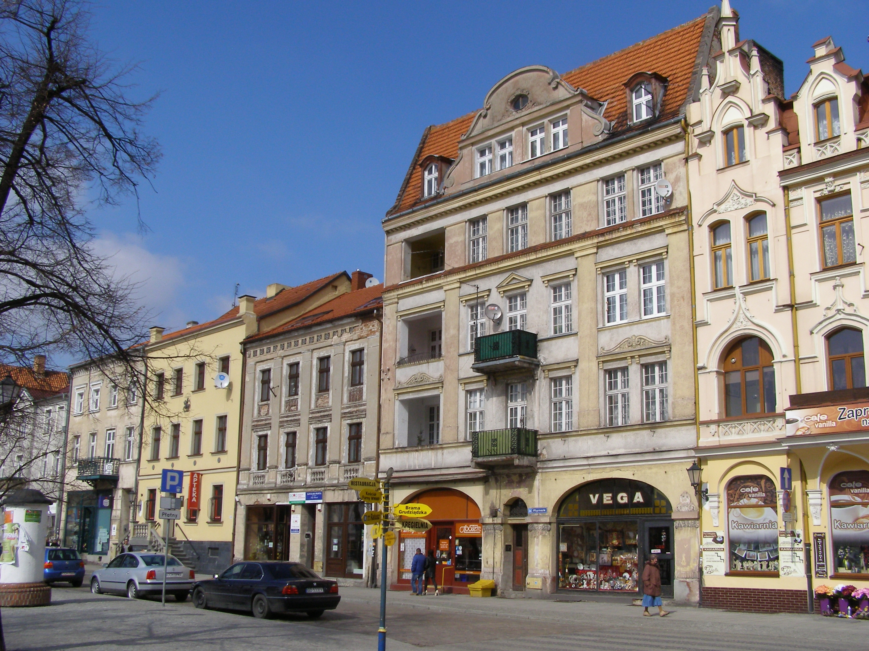 Chełmno - eastern frontage of the Market Square